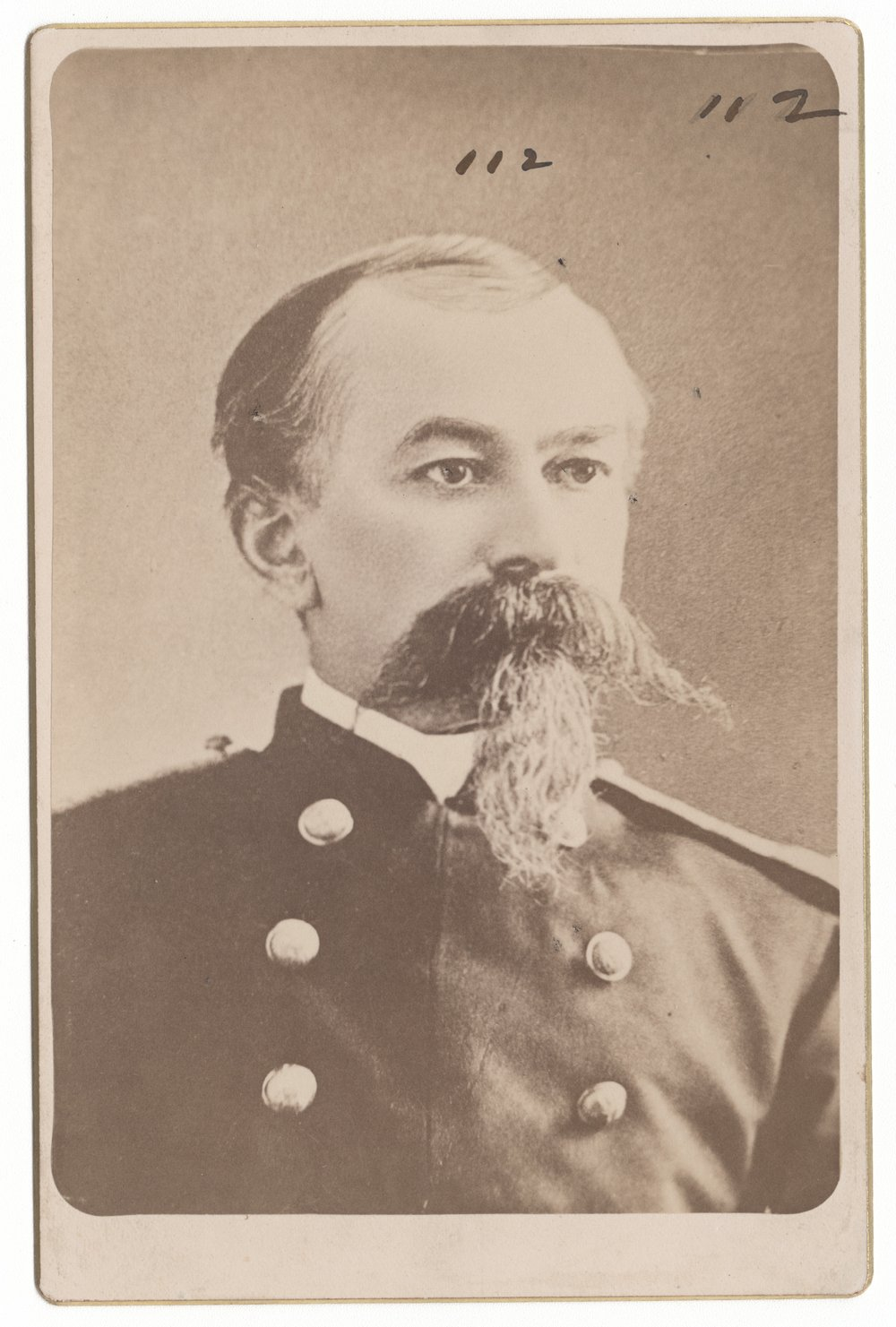 Colonel Asa Peabody Blunt, commander of the 2nd Vermont Brigade; from 1877-1888, commander of the United States Disciplinary Barracks at Fort Leavenworth, Kansas, Kansas Historical Society